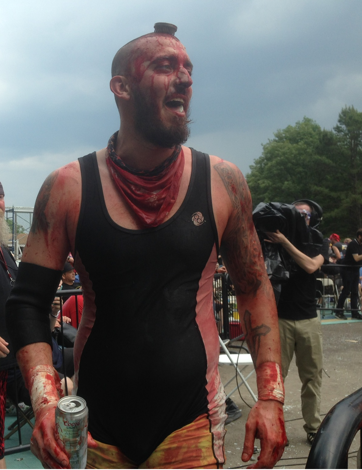 Photo taken by me of Mance Warner at the 17th CZW Tournament of Death